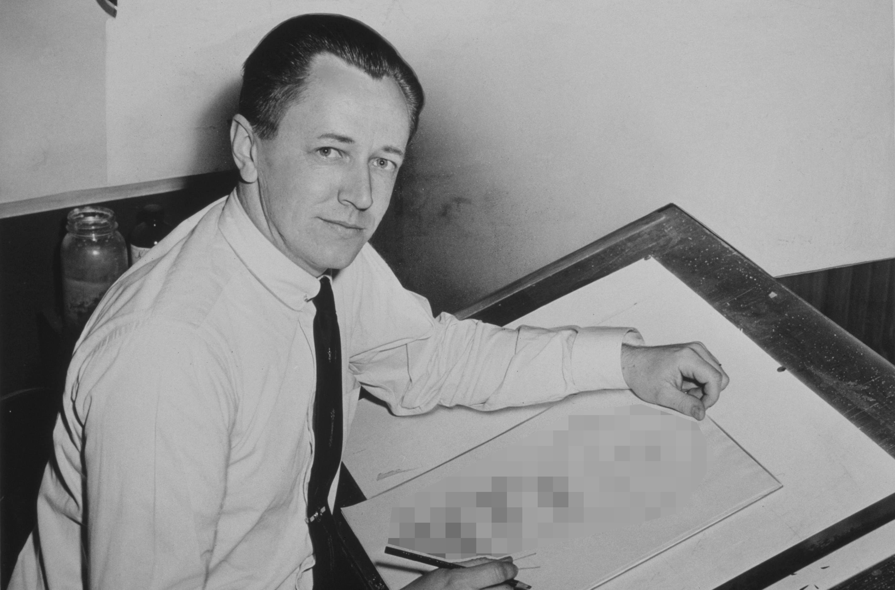 Charles Schulz American cartoonist; this is a modified version which has the drawing pixelated for use where depicting the original drawing might constitute a possible copyright infringement. See original image below.